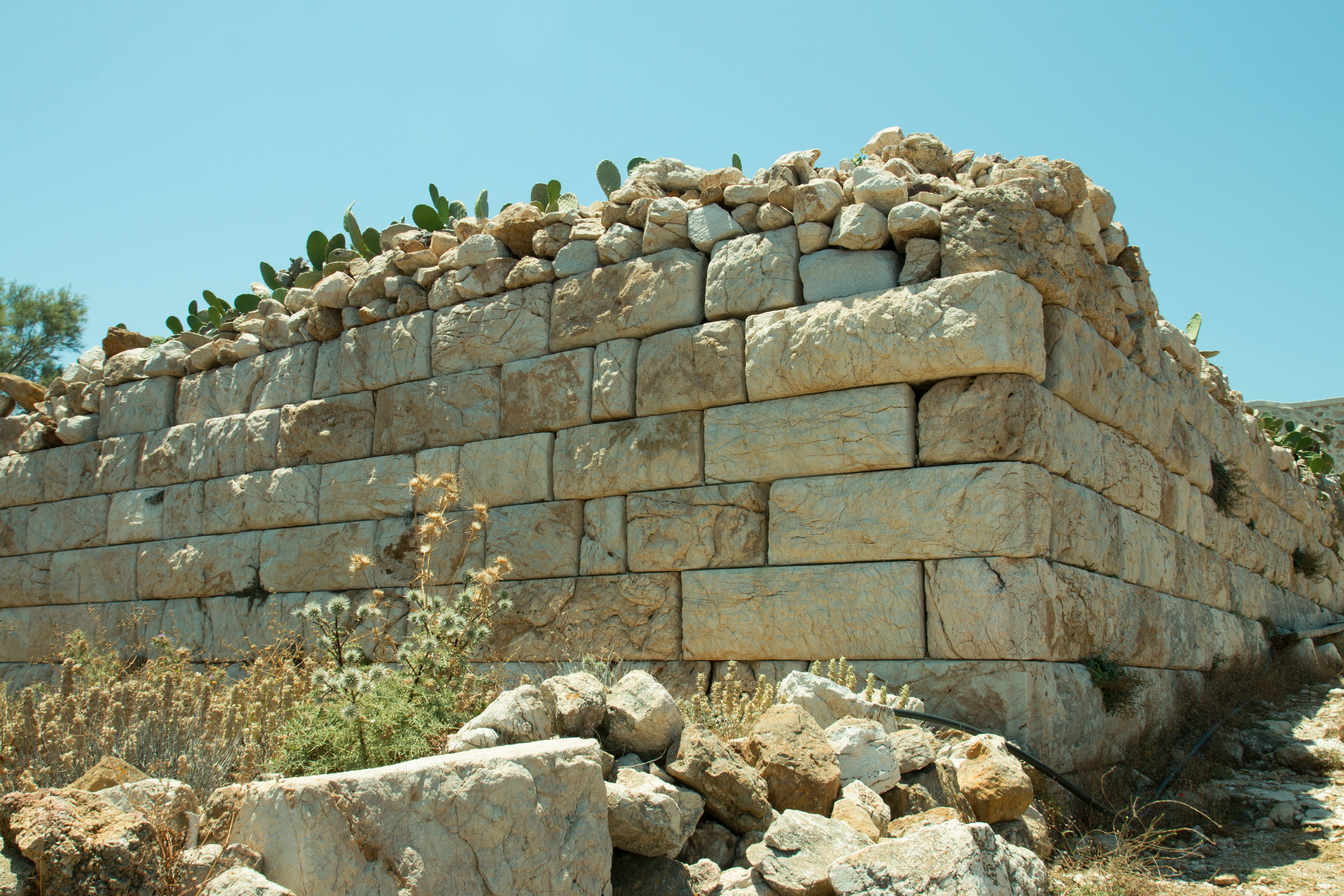 Peribolos (outer wall) of the sacred area of the Temple of Apollo Aigletes, northeast of the Zoodochos Pigi monastery. Anafi.